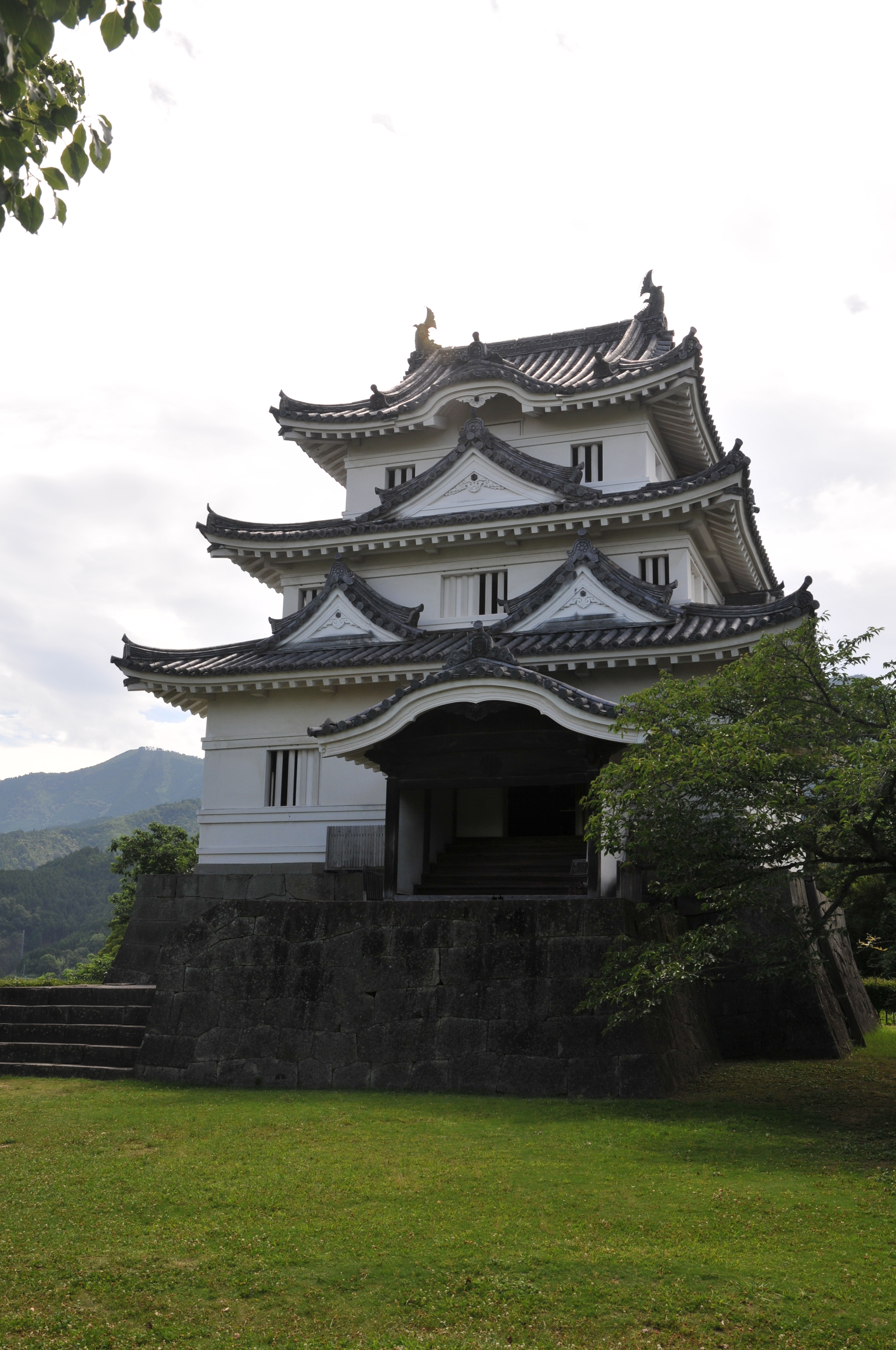 Front of the keep, Uwajima castle